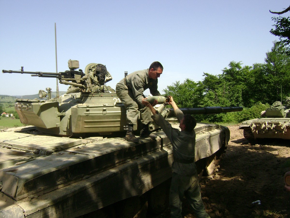 Serbian Army M-84 tank.